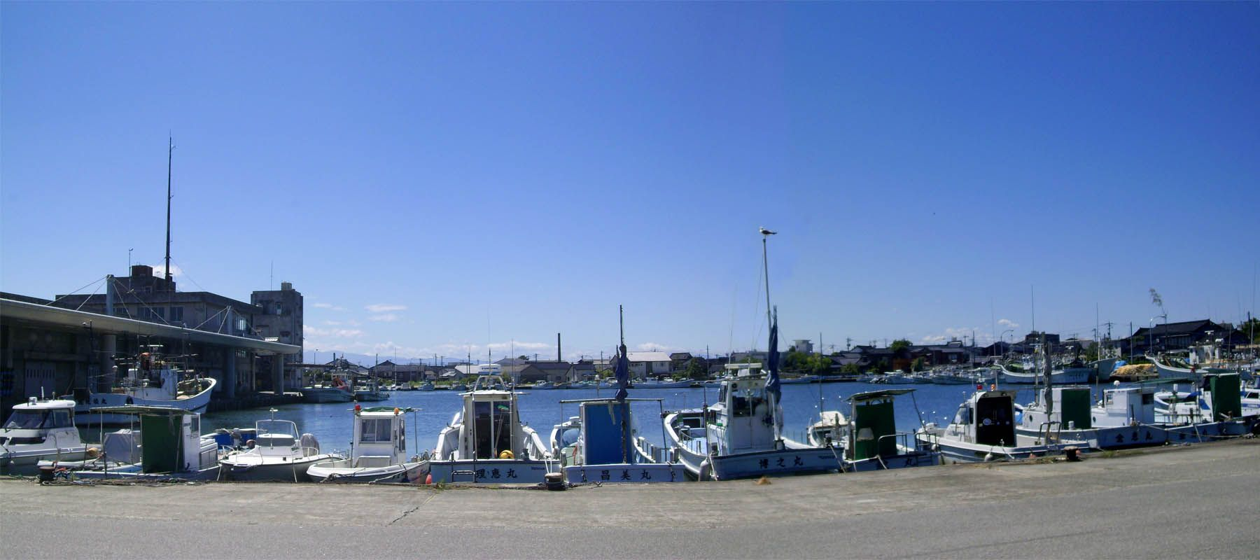 Ikuji Fishing port